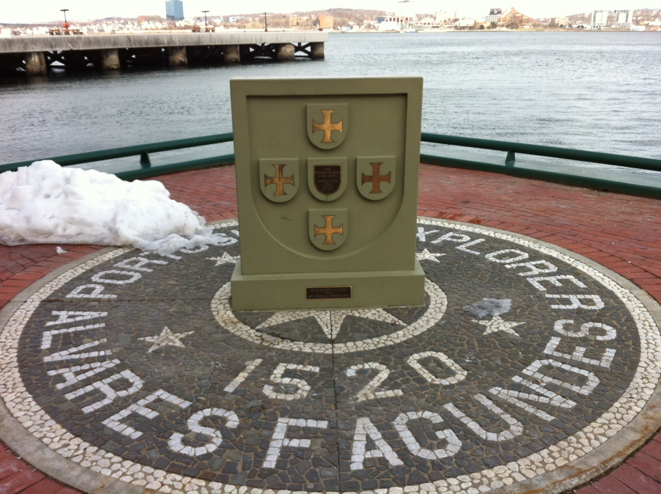 Alvares Fagundes Monument Halifax Nova Scotia